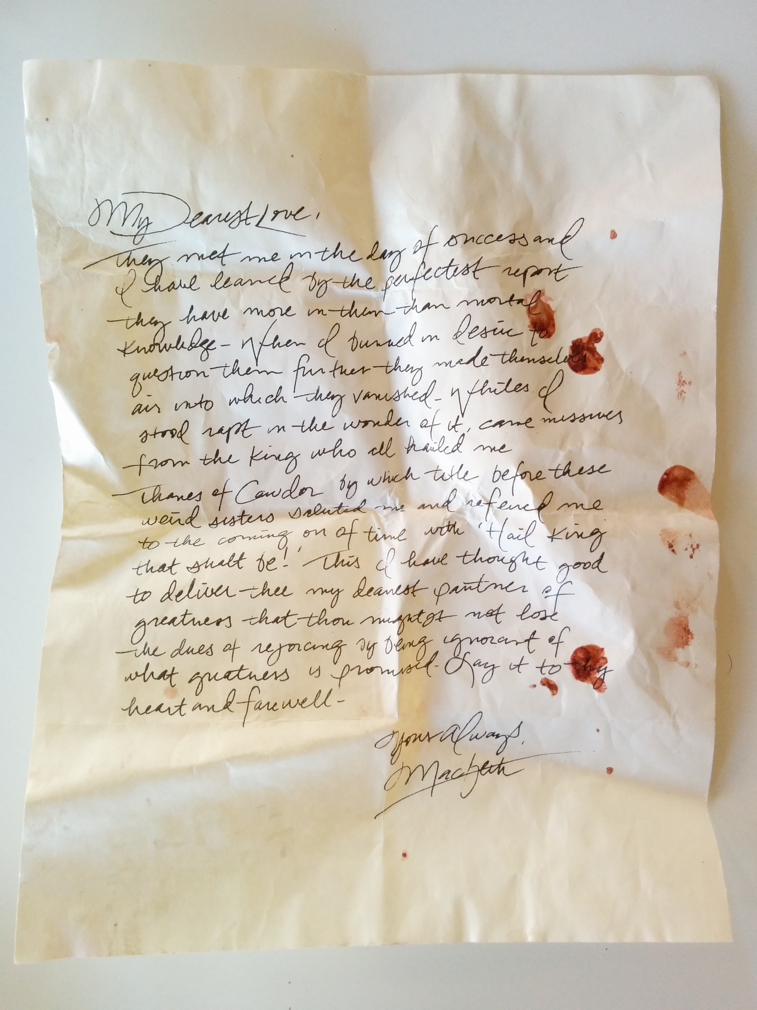 A prop letter from Sleep No More (2011 play)